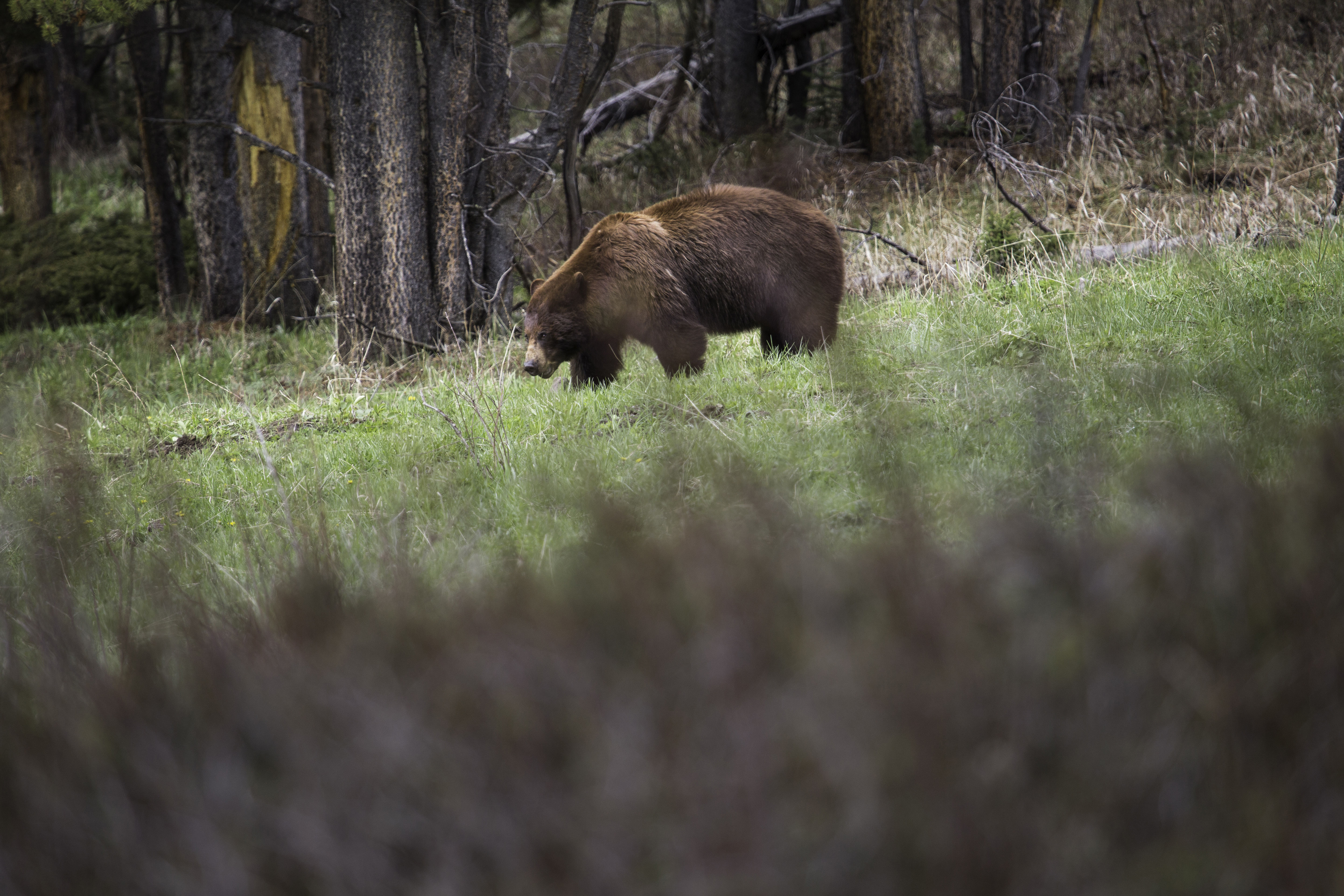 Cinnamon colored black bear near Soda Butte Creek; Neal Herbert; May 2015; Catalog #20120; Original #ndh-yell-6850